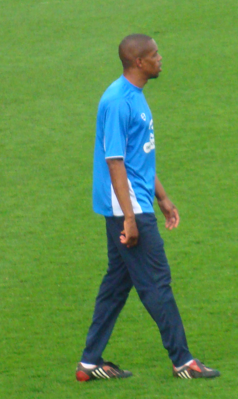 Francis Laurent warms up against Northampton Town